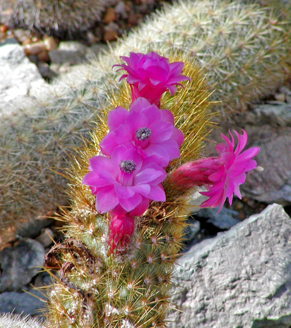 Photo of Cleistocactus icosagonus at Aarhus Botanical Garden